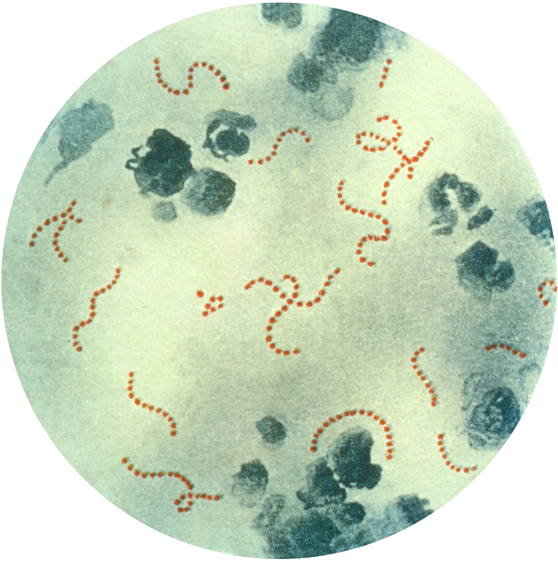 Photomicrograph of Streptococcus pyogenes bacteria, 900x Mag. A pus specimen, viewed using Pappenheim's stain. Last century, infections by S. pyogenes claimed many lives especially since the organism was the most important cause of puerperal fever and scarlet fever. Streptococci